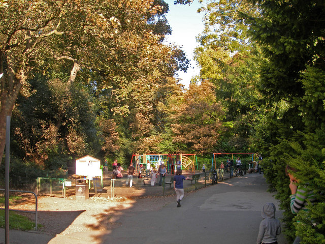 Forge Dam Park. Forge Dam Park has a playground area with equipment suitable for children of all ages